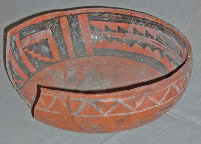 Los Padillas Polychrome bowl from the collections of the Maxwell Museum, University of New Mexico